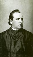 Photo of Václav Kosmák (1843 - 1898), a Czech priest and writer. Public domain due to age, otherwise fair use.